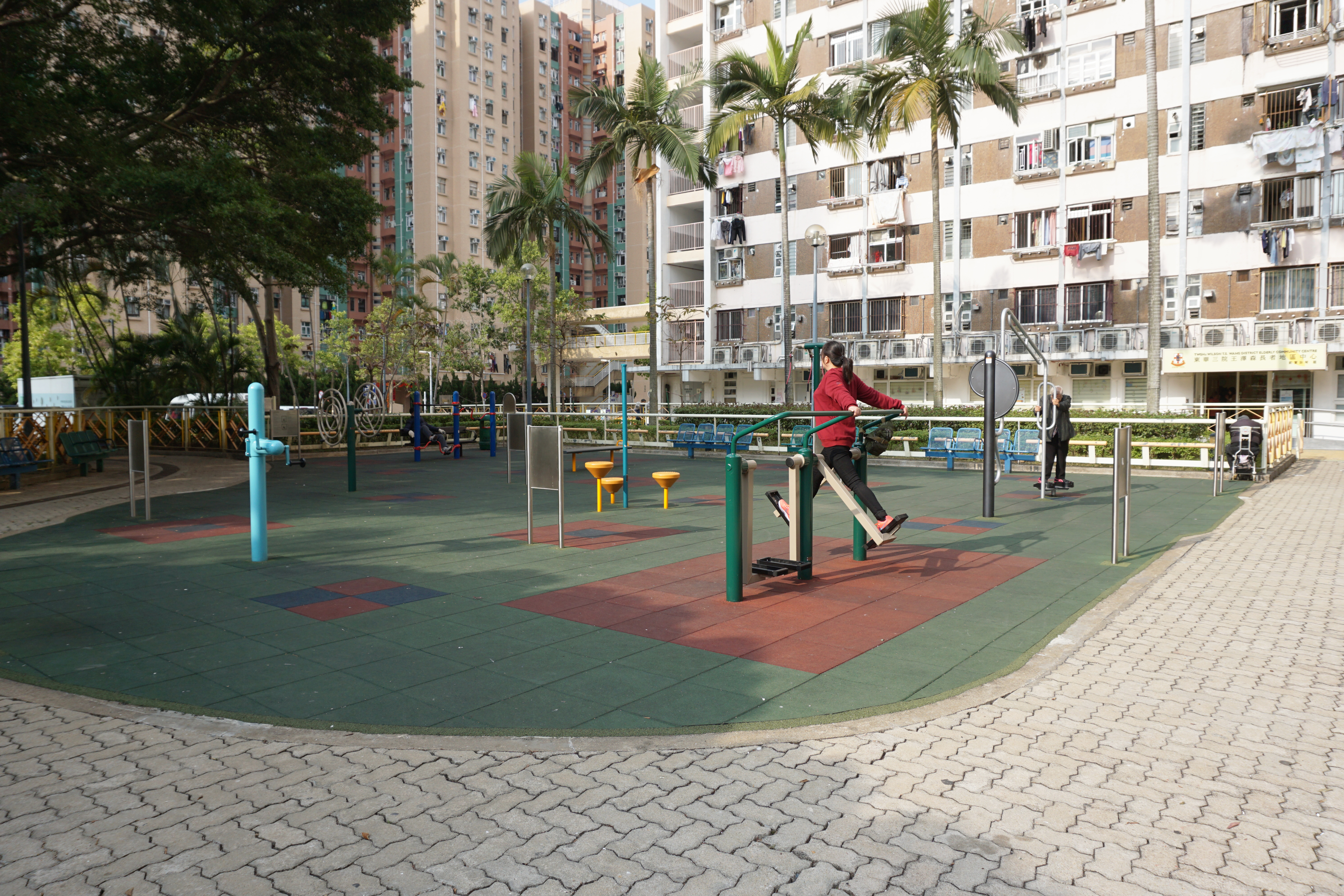 Sha Kok Estate in Sha Tin Wai, Hong Kong.